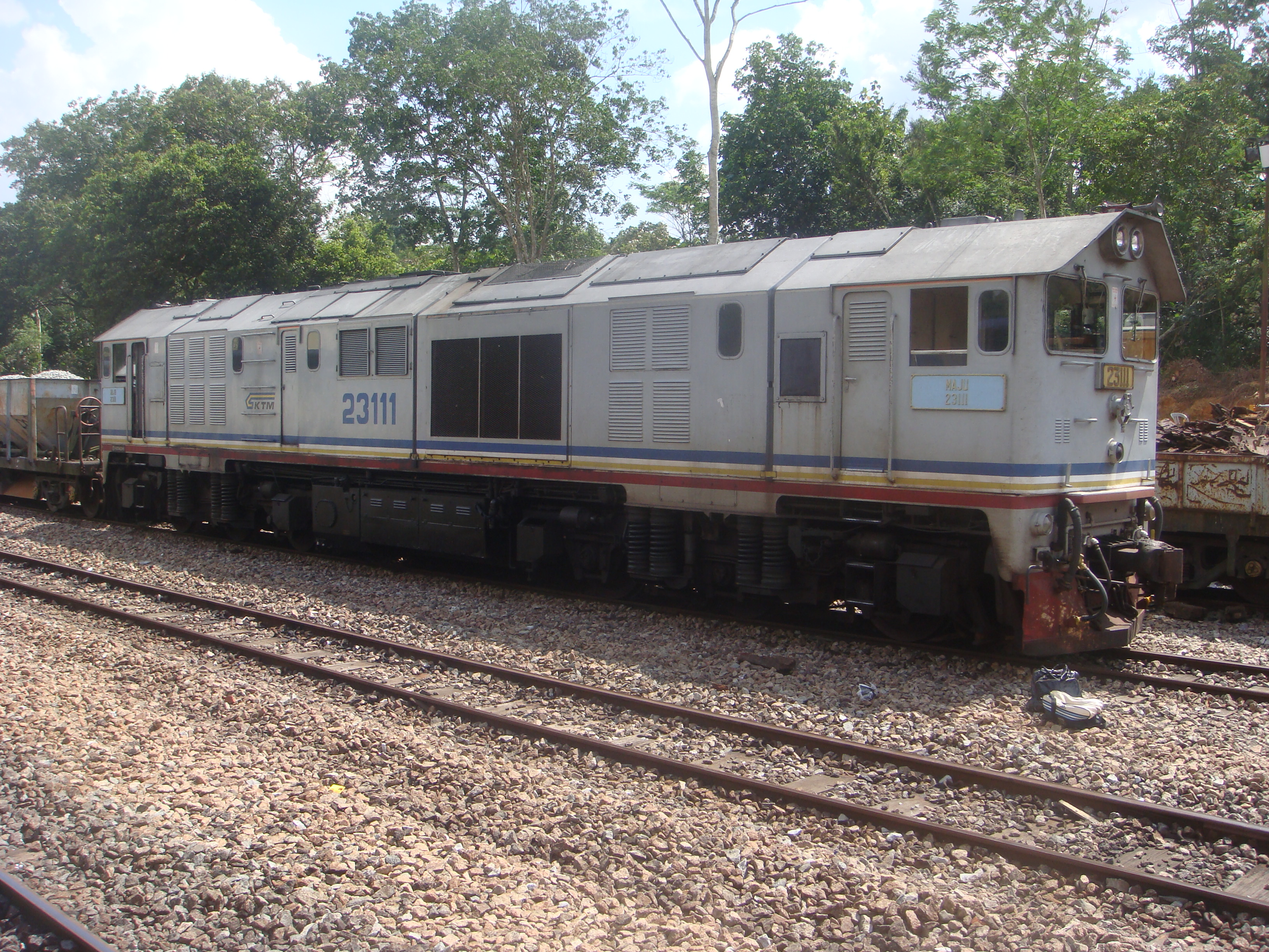 KTMB Class 23 Diesel locomotive 23111 at Kenpas Bahru Railway Station